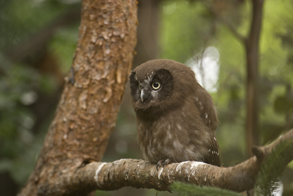 A juvenile Tengmalm's Owl at Innsbruck Zoo, Austria.